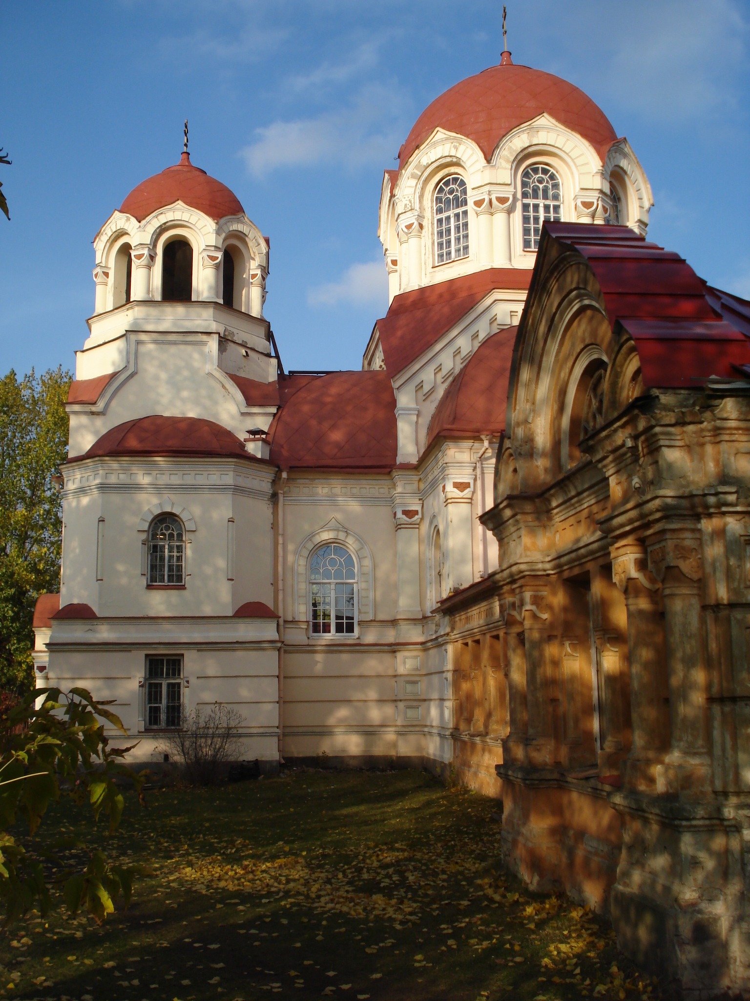 Russian Orthodox Church of St. Michael the Archangel in Vilnius (Kalvarijų g. 65). Built 1895